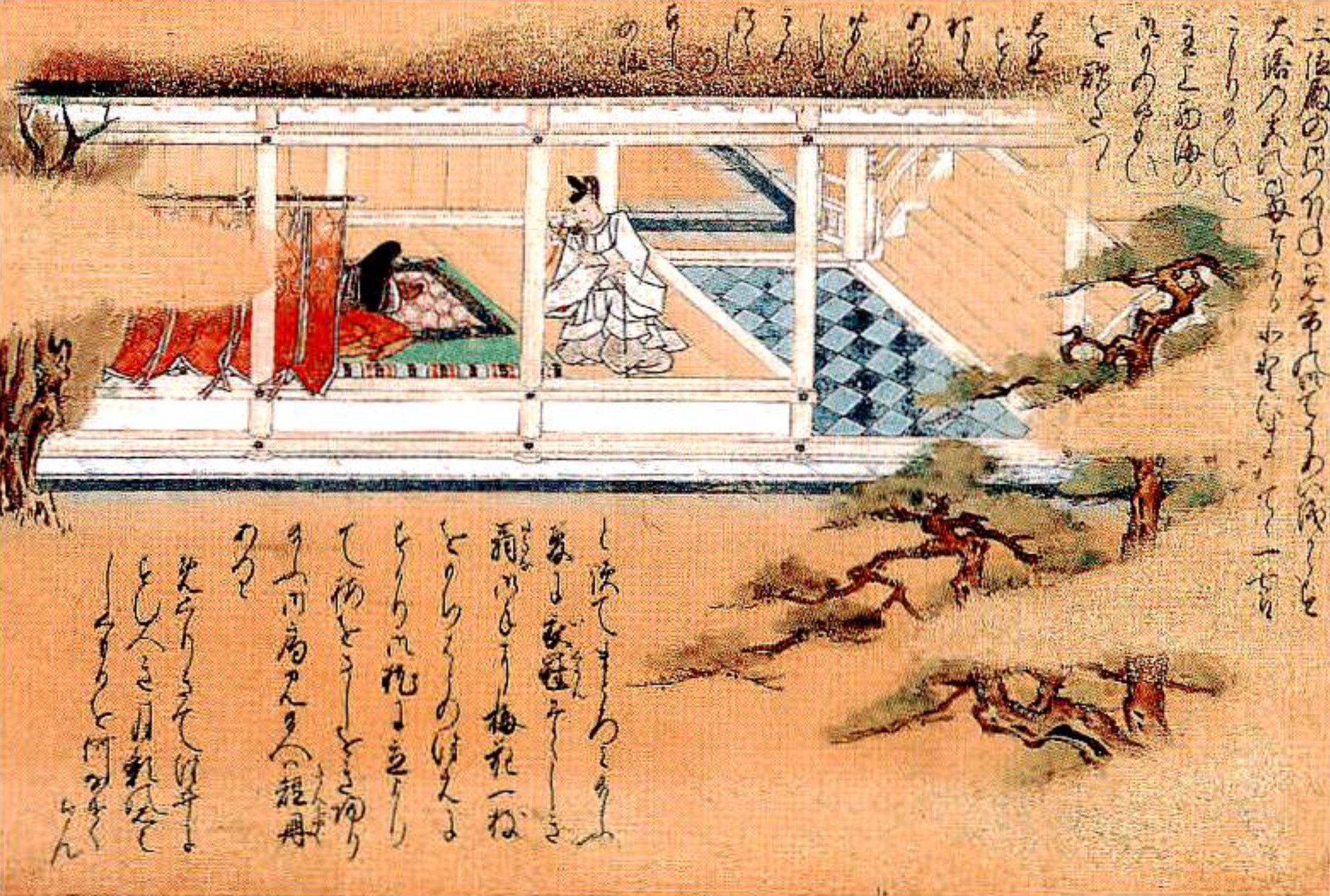 Minbukyō-no-Sanmi and Sugawara-no Michizane from Taiheiki Emaki, owned by Saitama Prefectural Museum of History and Folklore